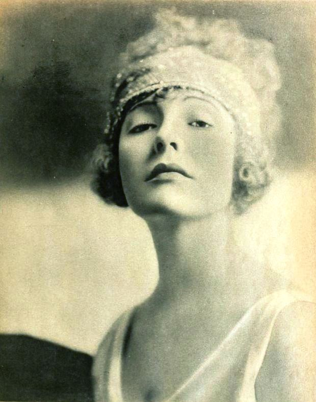 Actress Doris Pawn on page 21 of the February 1920 Motion Picture Magazine.